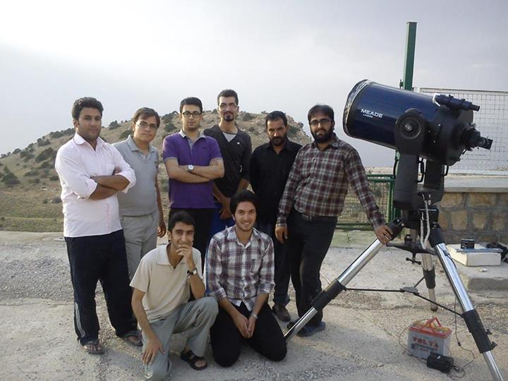 Estehlal Headquarters in Kharmankouh mountain in Fasa in Fars Province of Iran